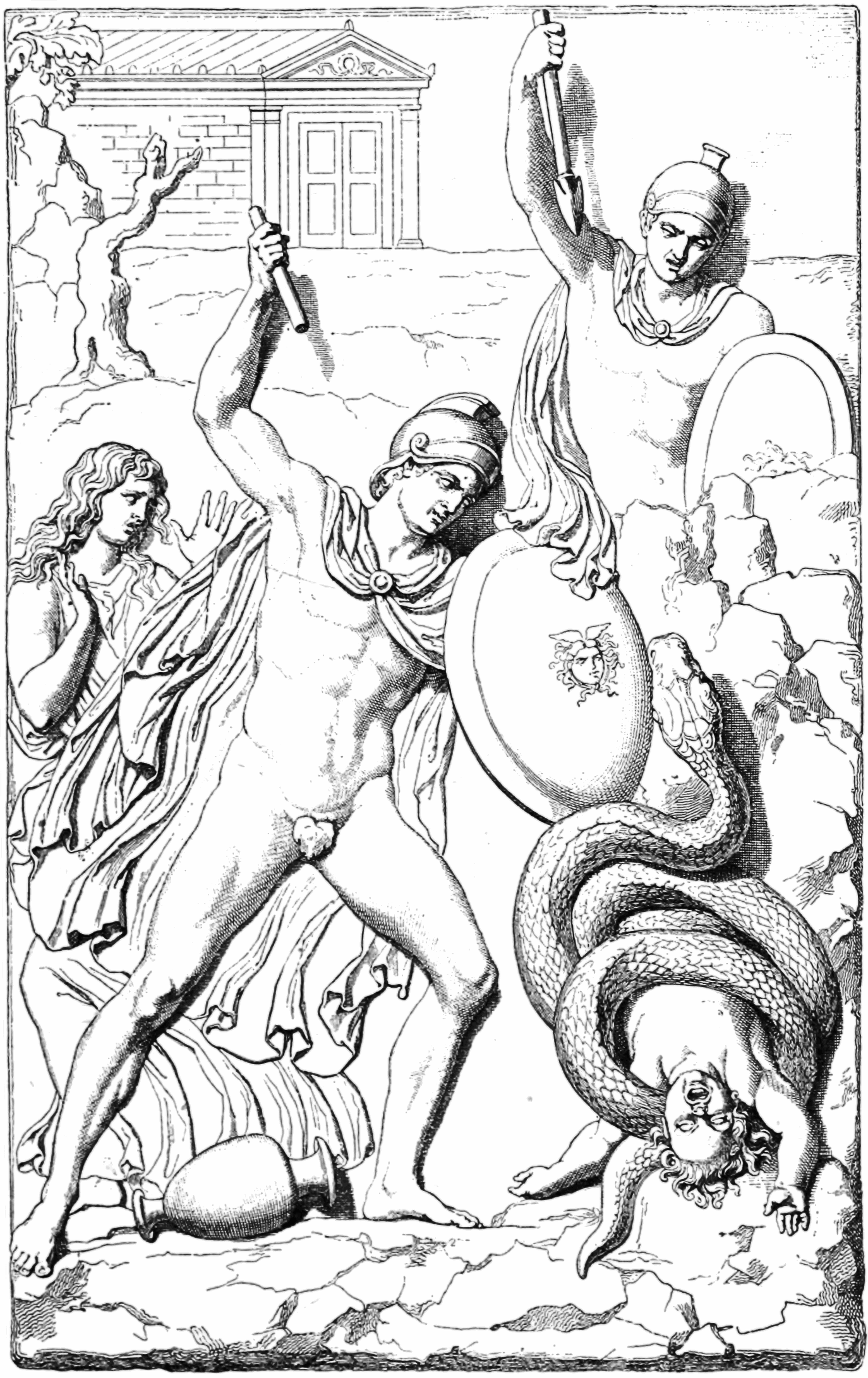 Opheltes ensnared by the snake and strangled.